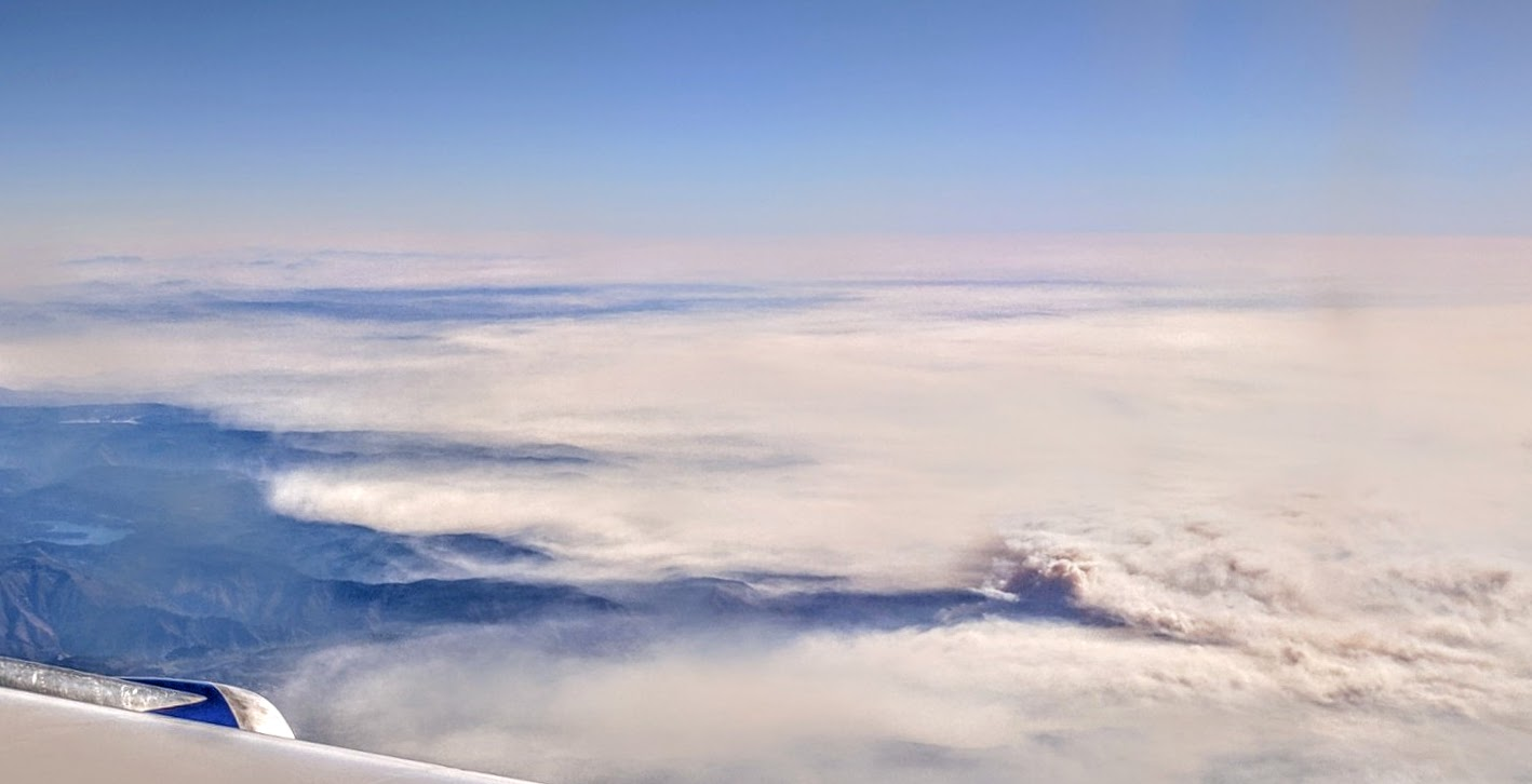 Aerial view of Bucks Lake (far left) near the origin of the Camp Fire (2018), with the smoke plume of the ongoing fire, Nov. 10, 2018.